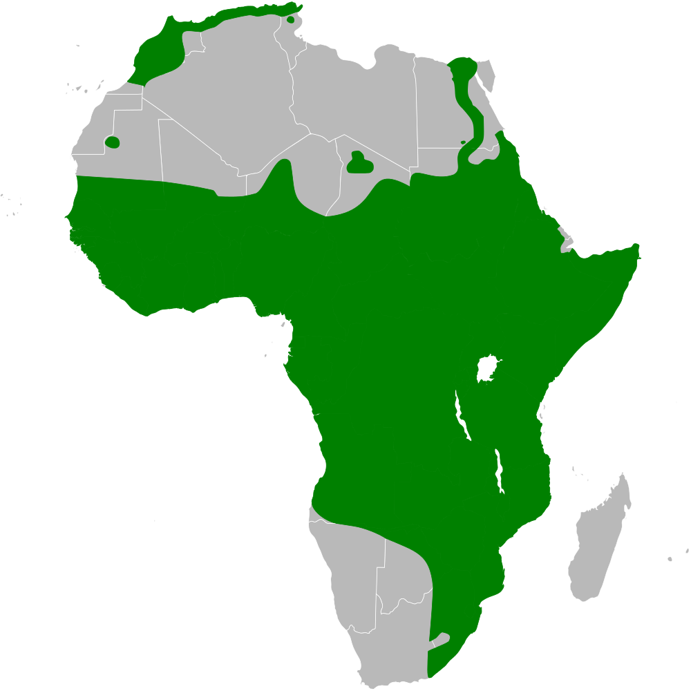 Pycnonotus spp.distribution map, including P. barbatus, P. dodsoni, P. somaliensis, P. tricolor (P. barbatus sensu lato) distribution map, based on